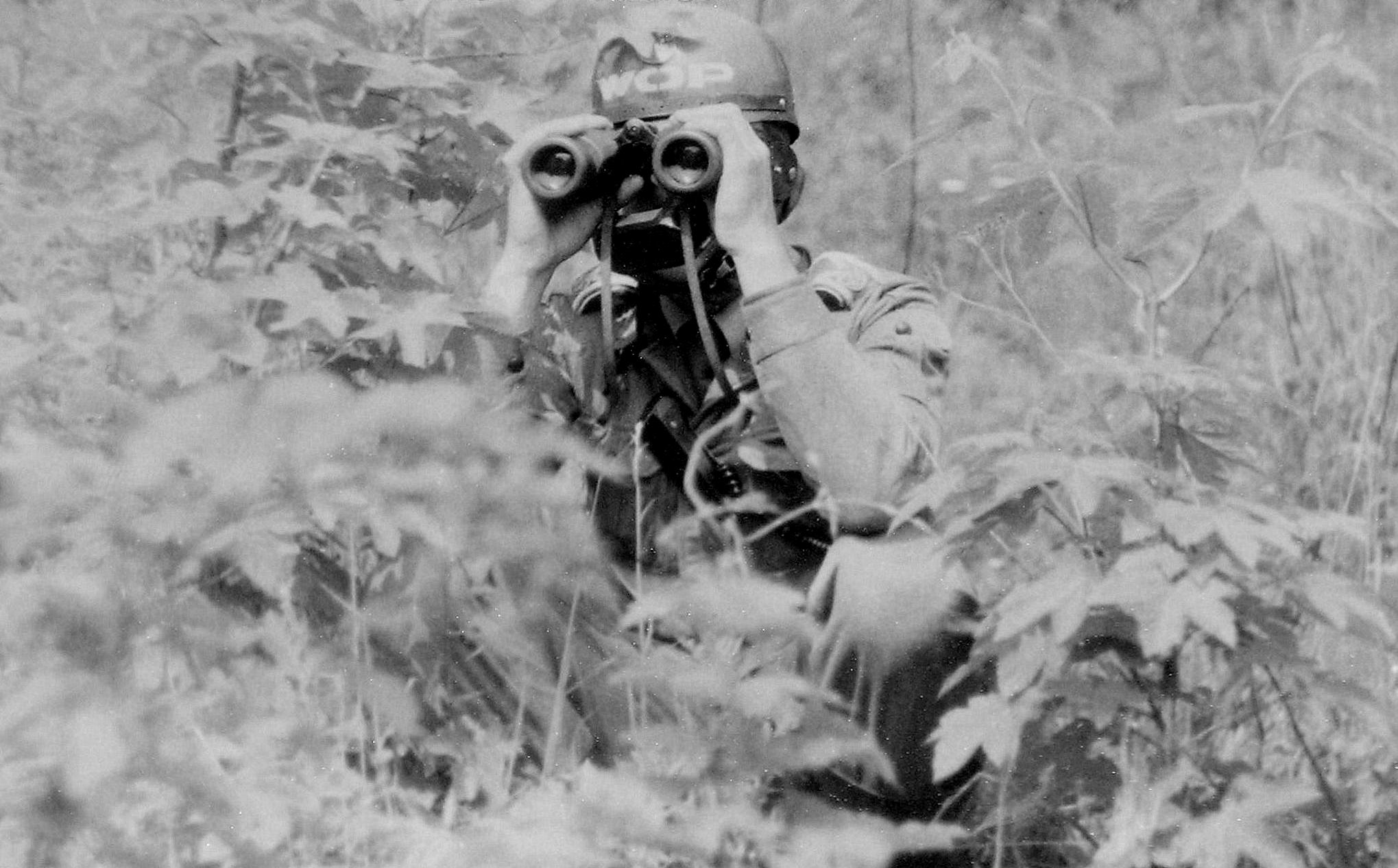 WOP post in Krasne Pole